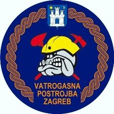 sugestion logo for fire department of Zagreb city